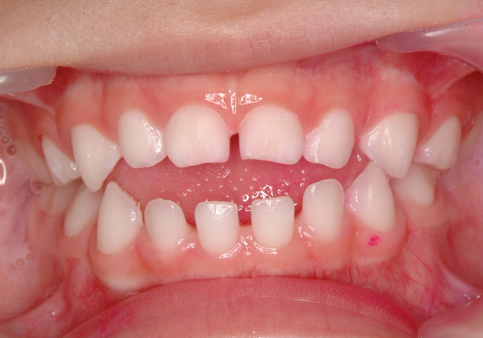 teeth photo